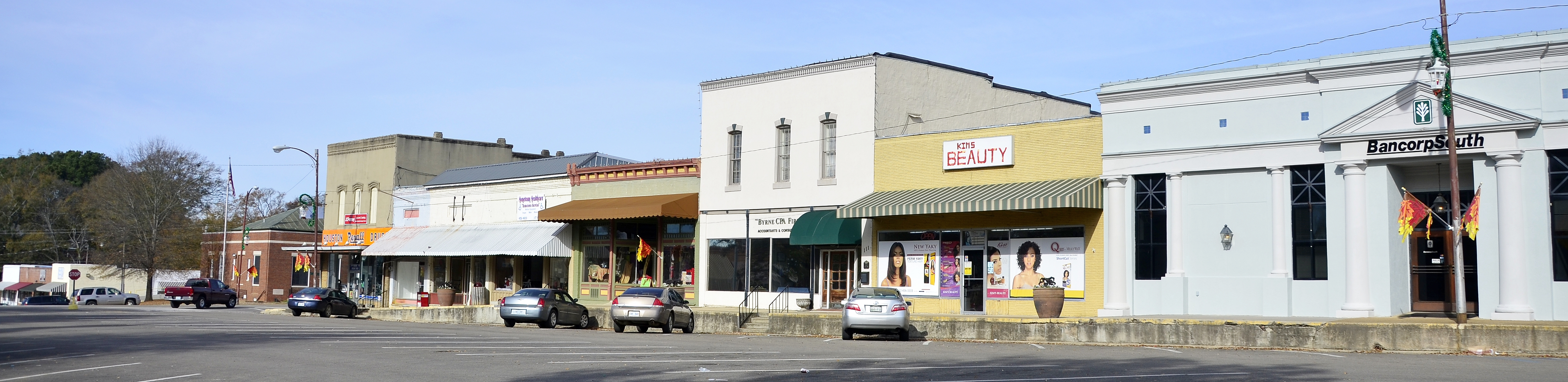 East Washington Street in Houston, Mississippi.